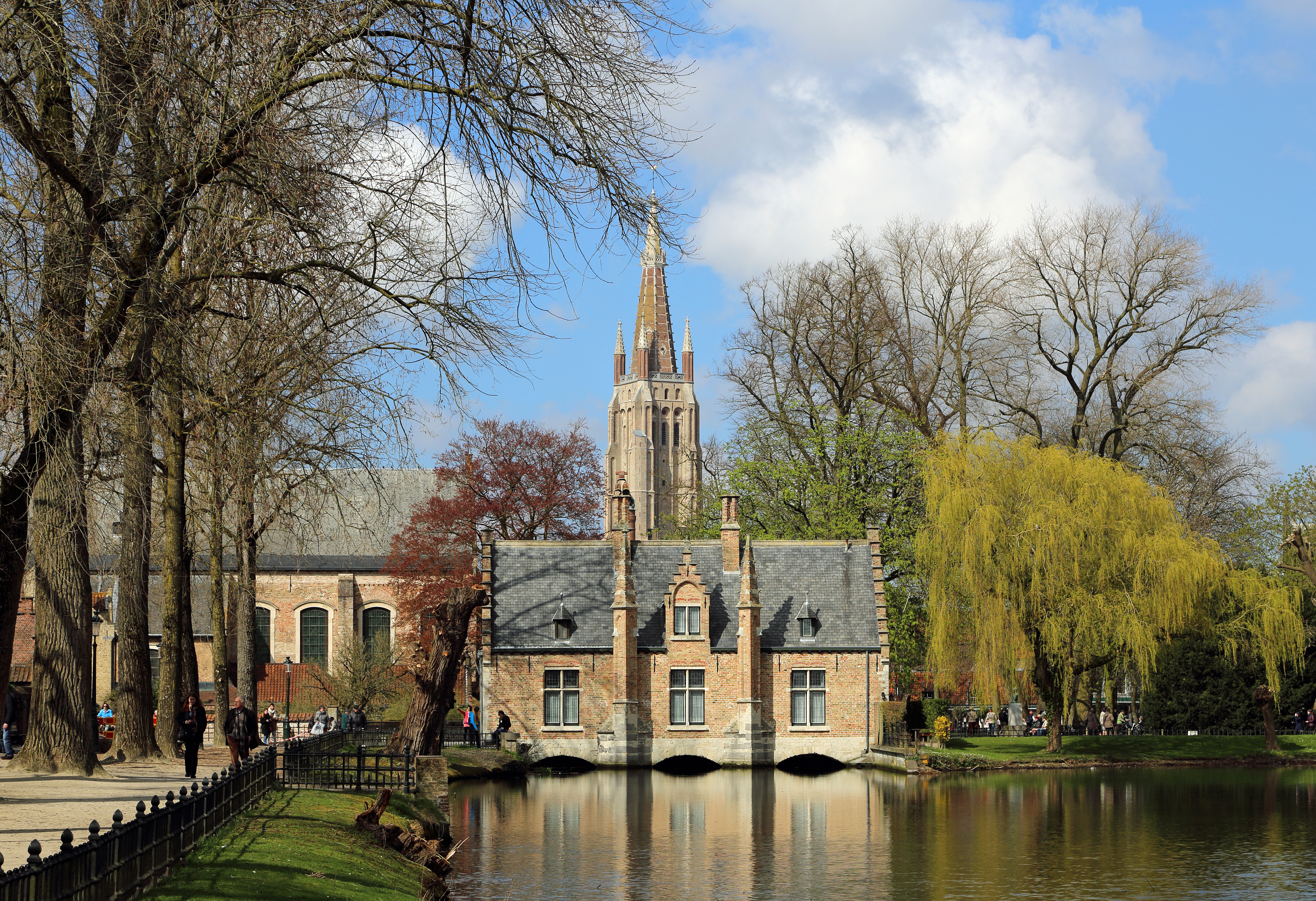 Bruges (Belgium): the lock-keeper's house of the Minnewater